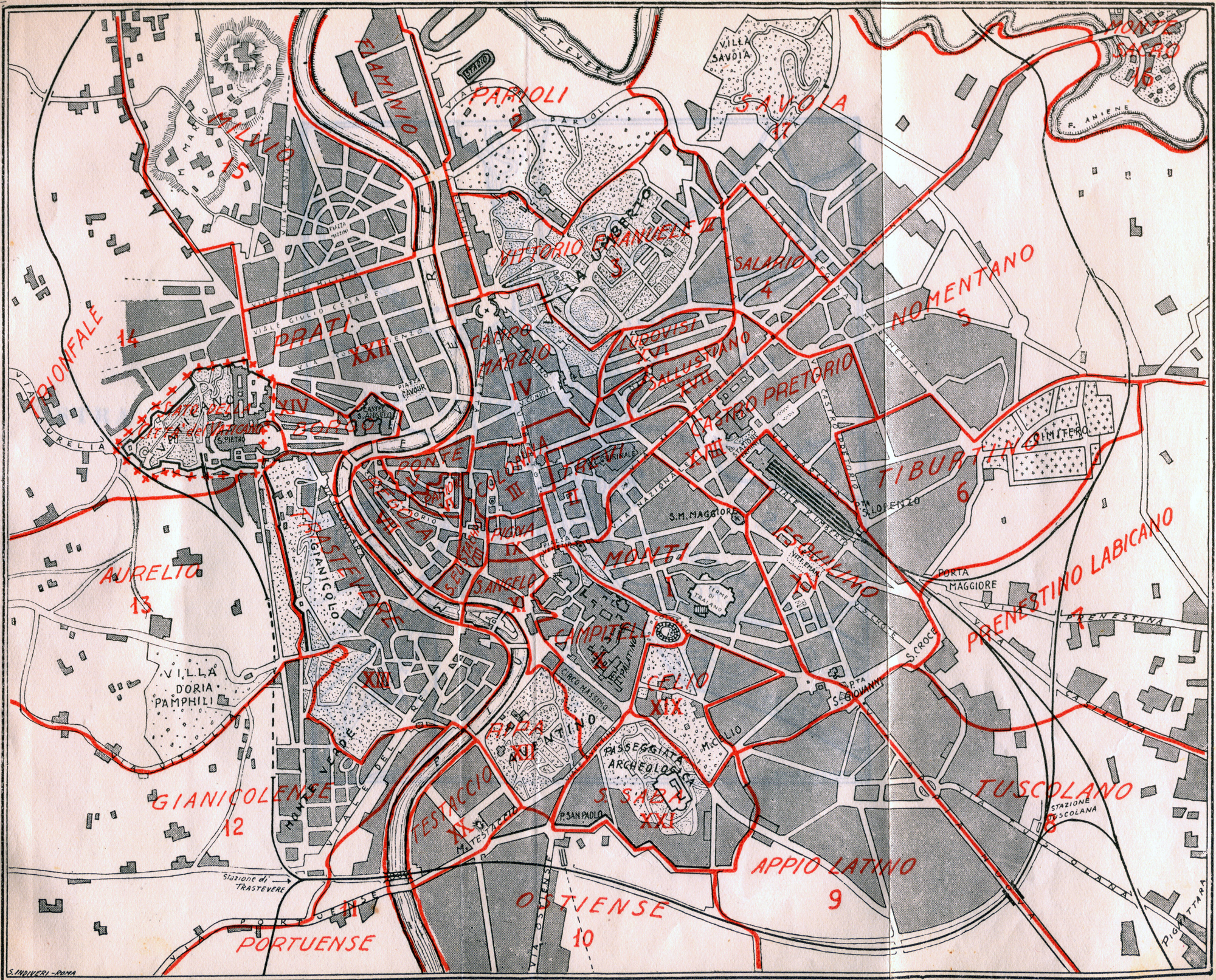 Plan showing quarters (quartieri) of Rome.